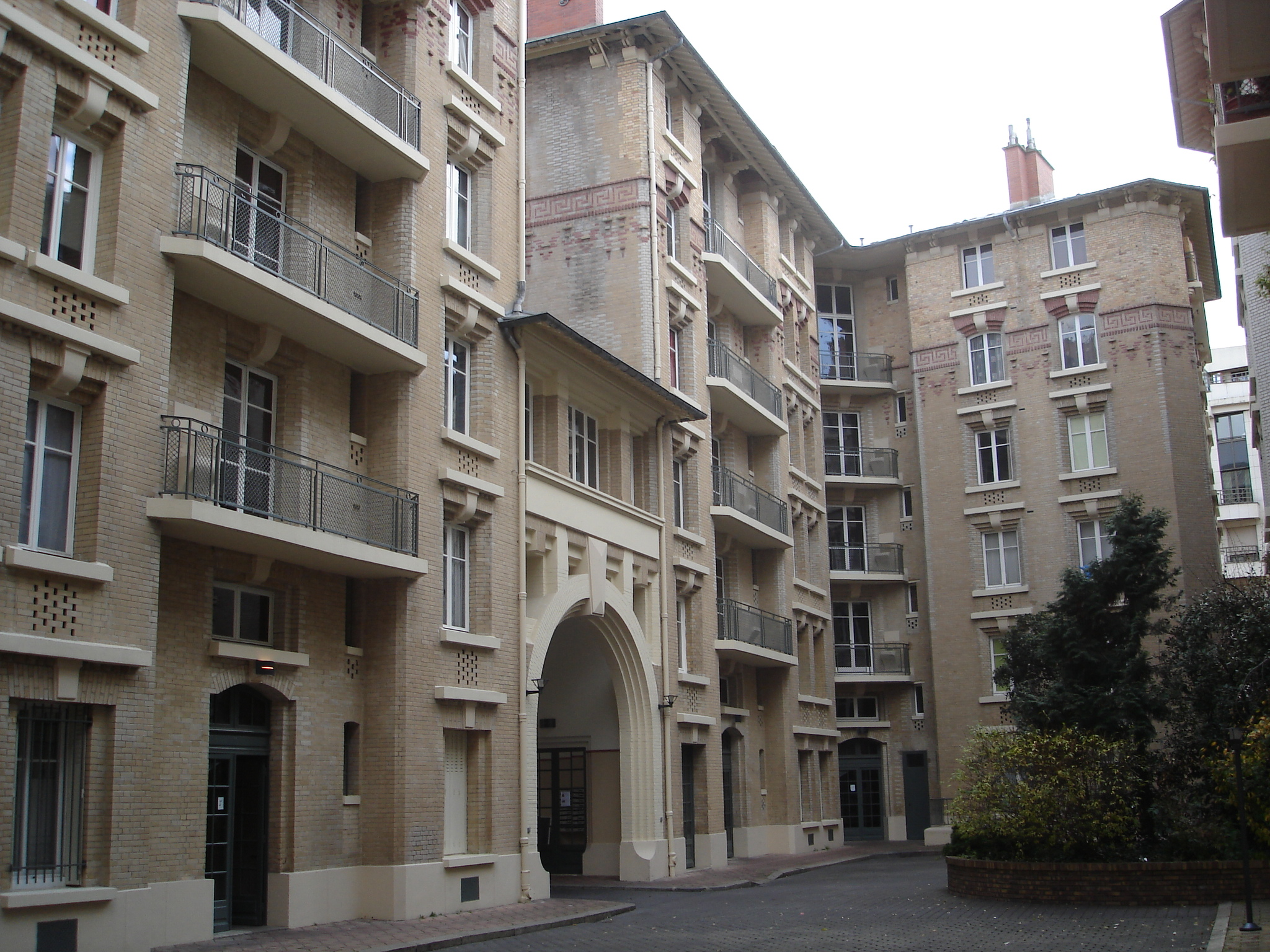 3-5 rue Baudin. Social housings built at the beginning of the XXth century in Levallois-Perret by the Cognacq-Jay Association for the large families.